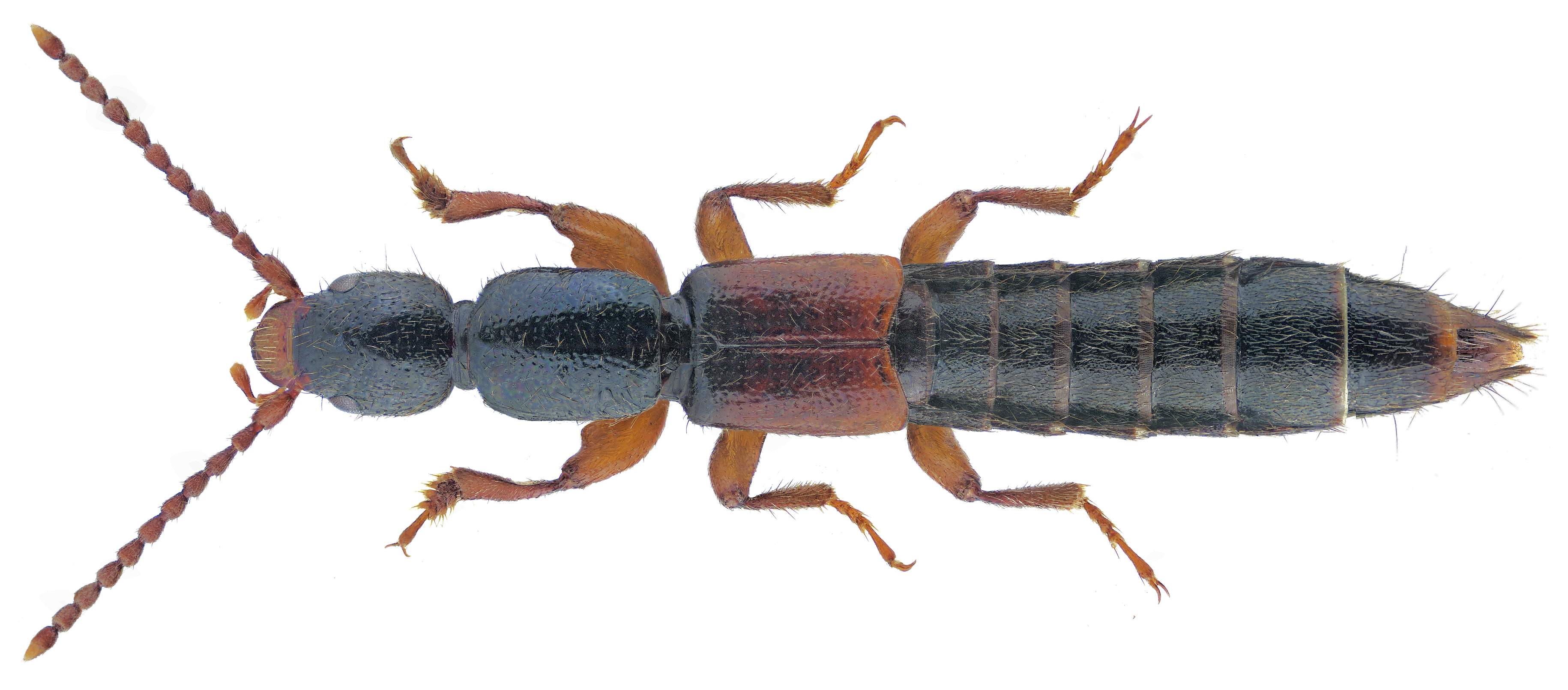 Lathrobium fulvipenne (Gravenhorst, 1806) Family: Staphylinidae Size: 8.3 mm (7.5 to 10.5 mm) Origin: Transpalaearctic, adventiv in North America Ecology: Eurytop, in unwooded biotopes Location: Germany, Bavaria, Upper Franconia, Kulmbach, Plosenberg leg.det. U.Schmidt, 12.V.1974 Photo: U.Schmidt, 2018